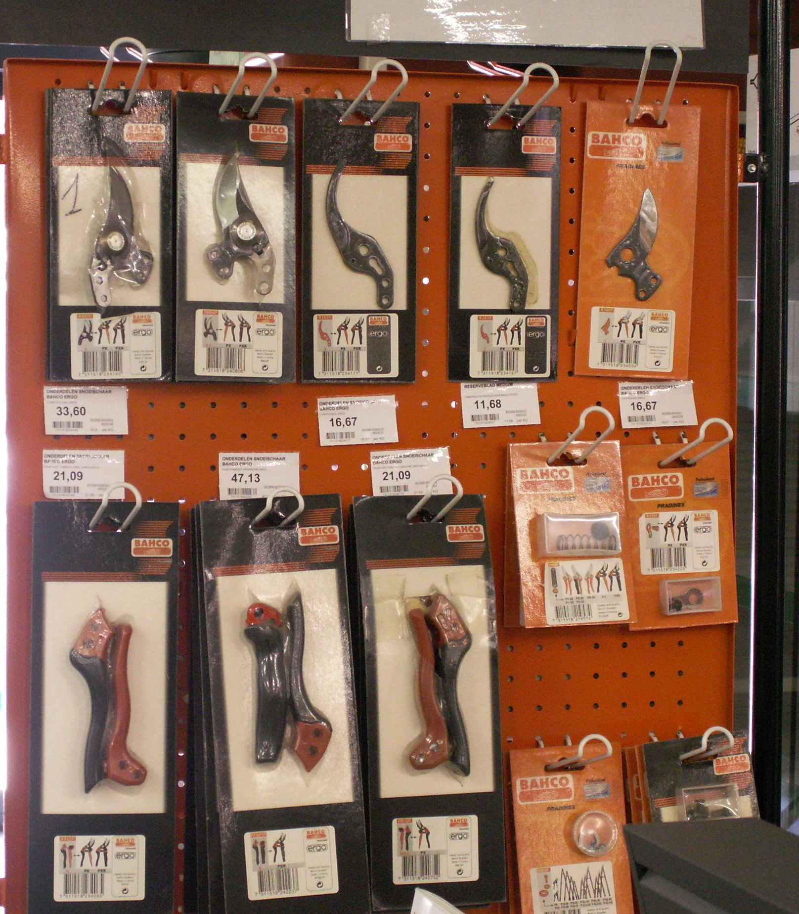 A picture of professional-grade pruning shears (which have removable blades).